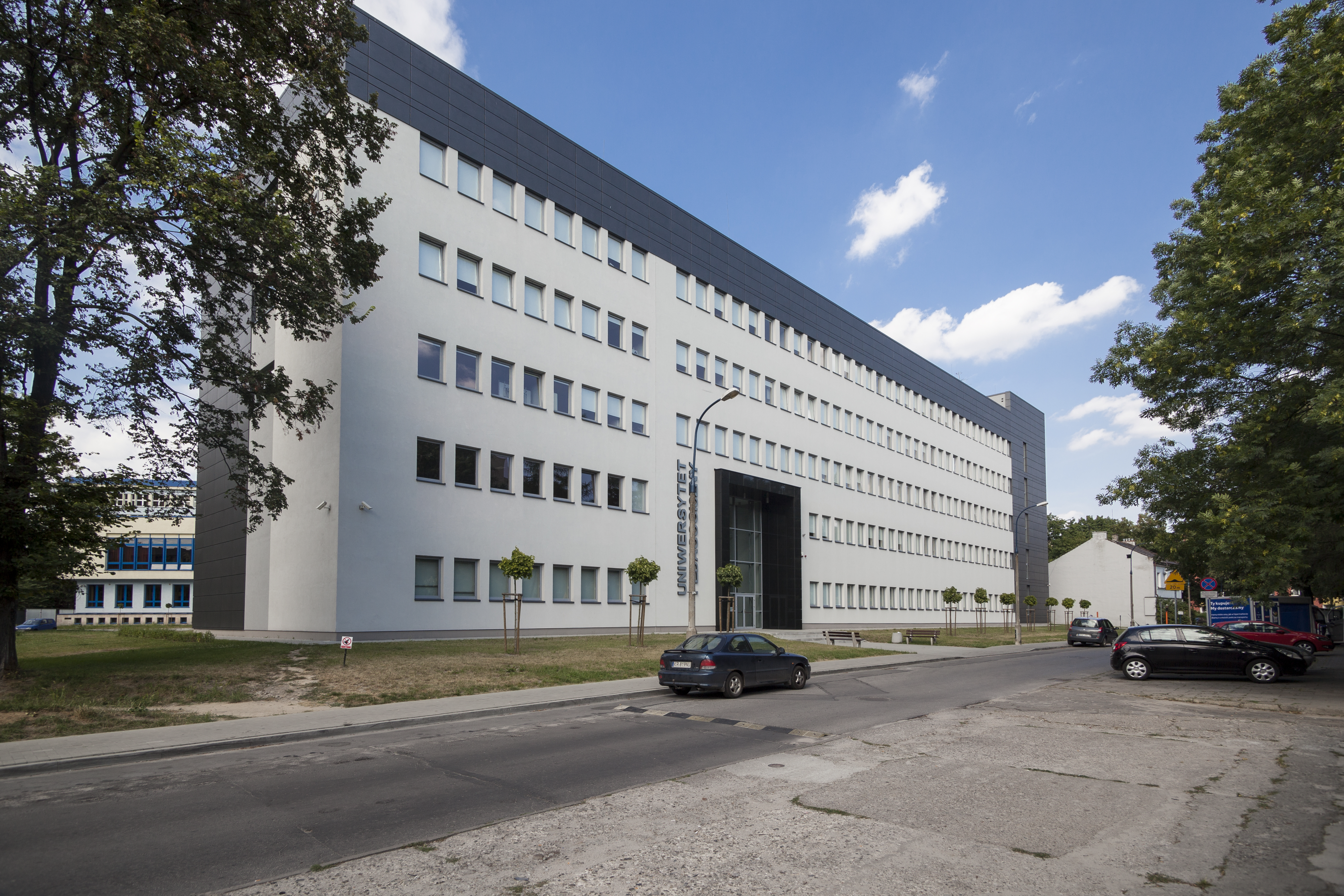 Pedagogical University of Cracow